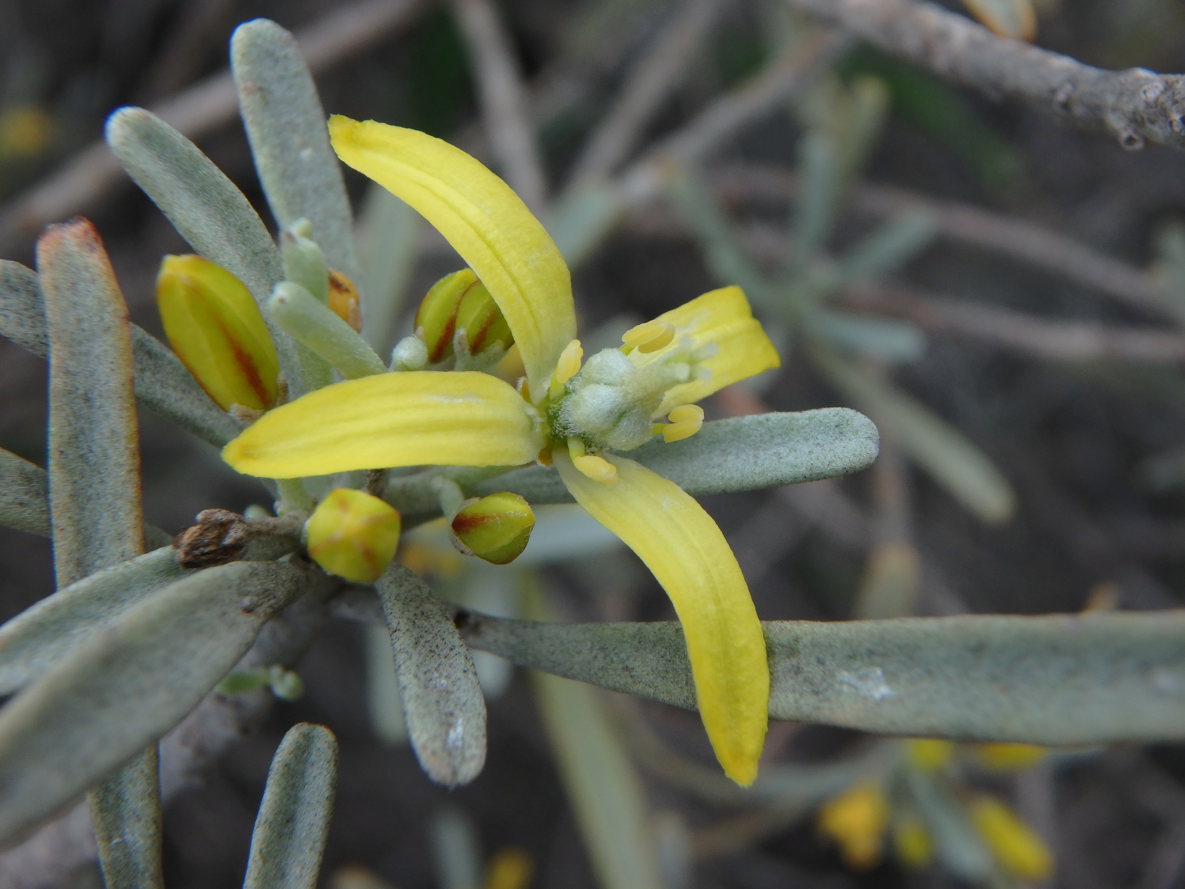 Cneorum pulverulentum Vent.